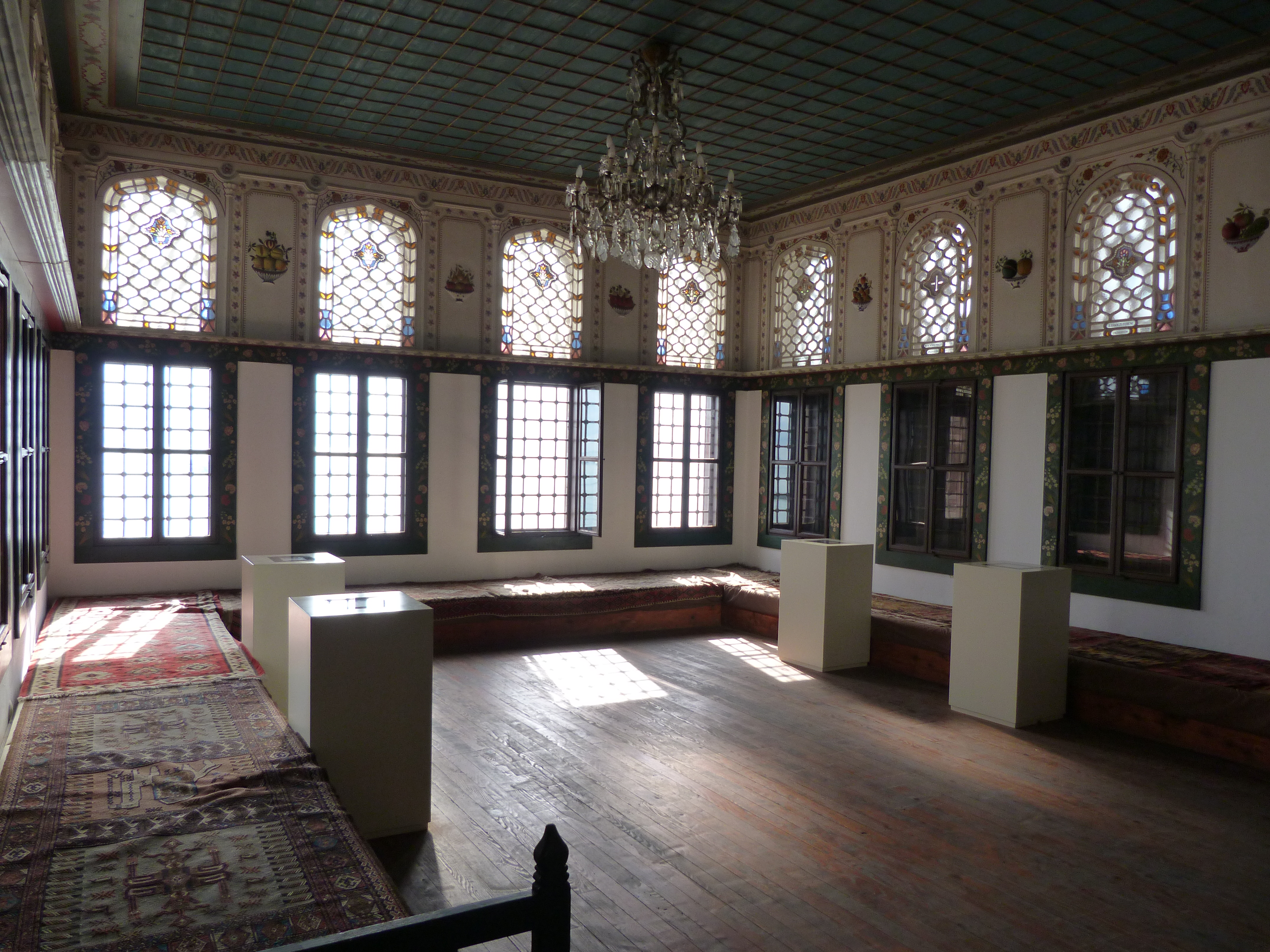 Live on the 25th of october, 2014. Rákóczi Museum, Tekirdağ, Turkey. ©© Derzsi Elekes Andor, Budapest, 2014, Published in the Metapolisz DVD line. You are authorised to use this vid under Creative Commons – even for commercial, for profit purposes. The vid must be attributed to Derzsi Elekes Andor. All of the photos and vids in the Metapolisz DVD line are under Creative Commons and can be used even for commercial – for profit – purposes. Recommended Citation Derzsi Elekes Andor: Metapolisz DVD line